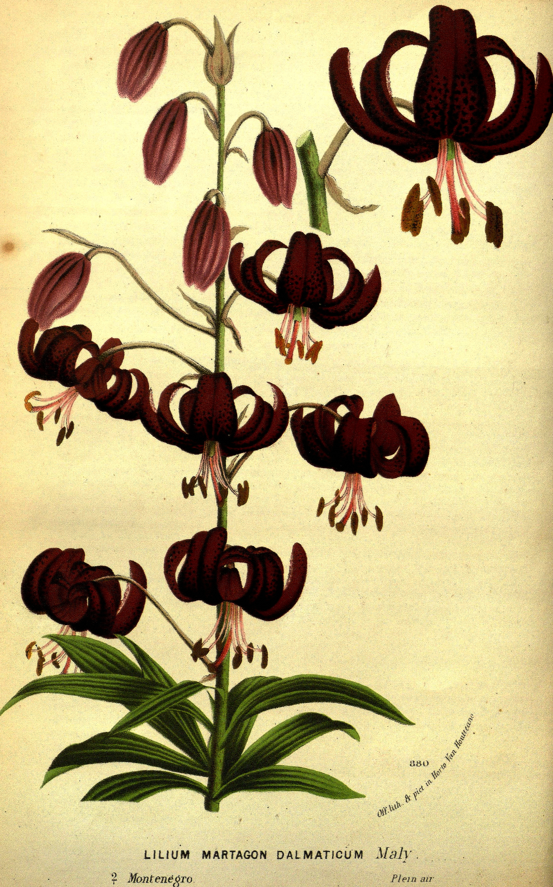 Lilium martagon var dalmaticum Maly, Louis van Houtte